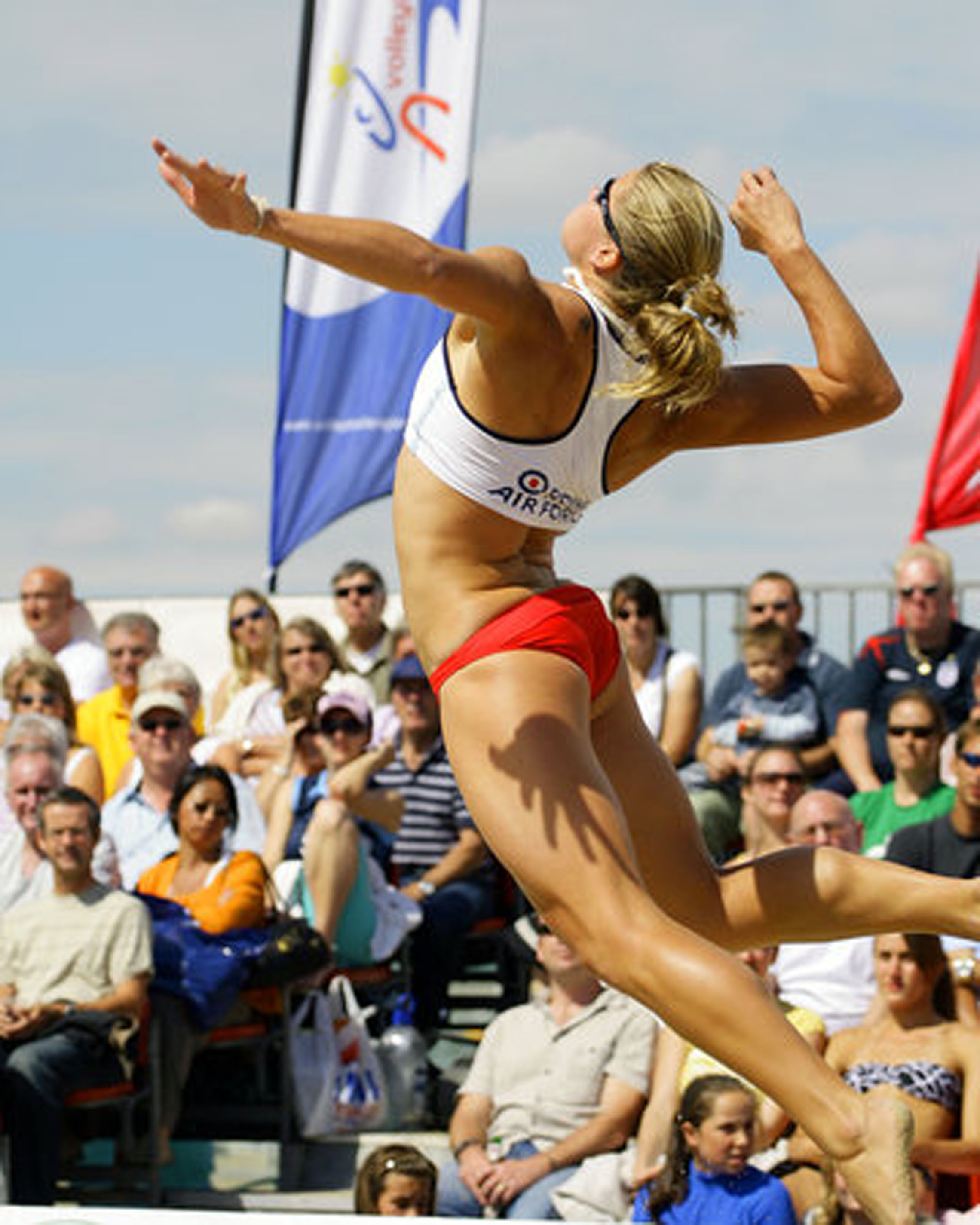 Beach Volleyball Classic 2007 Weymouth Dorset ENGLAND